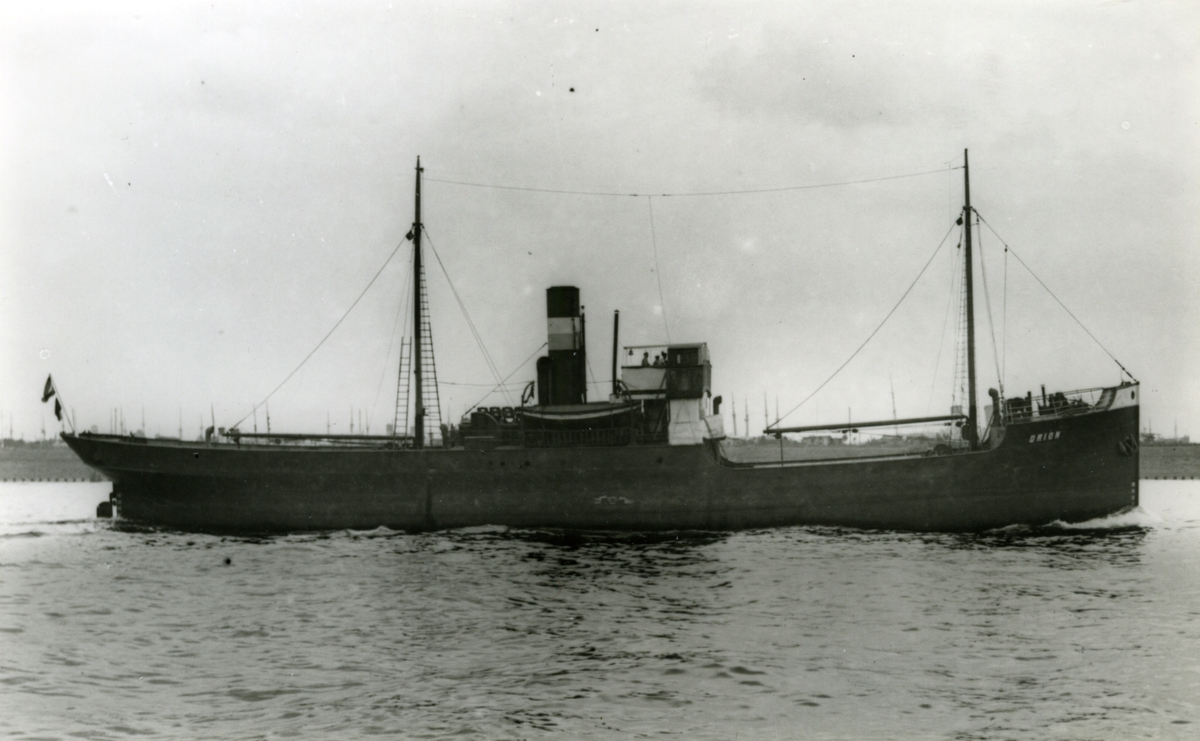 General cargo ship ORION (IMO 5604237) built at N.V. E. J. Smit & Zoon's Scheepswerven, Hoogezand/Netherlands (yard № 545, completed: 06-1917) as SOESTERBERG for J.J.A. van Meel, Rotterdam/Netherlands, later names: 1917 KRISTOFA (Bowman & Co Rederi, Bergen/Norway), 1920 JO (Bergen Lloyd A/R, Bergen/Norway), 1928 ORION (Atlantic-Rhederei GmbH, Hamburg/Germany), 1937 FRANZ OHLROGGE (Karl Gross, Brake/Germany), BU at Eisen u. Metall KG Lehr & Co, Bremerhaven/Germany, 02-1955; collection J. Robert Boman (1926 - 2002) owned by Sjöhistoriska museet.